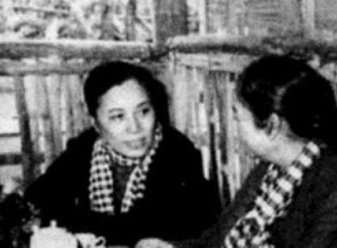 Photo of Nguyen Thi Dinh, the highest-ranking female General of the National Liberation Front.